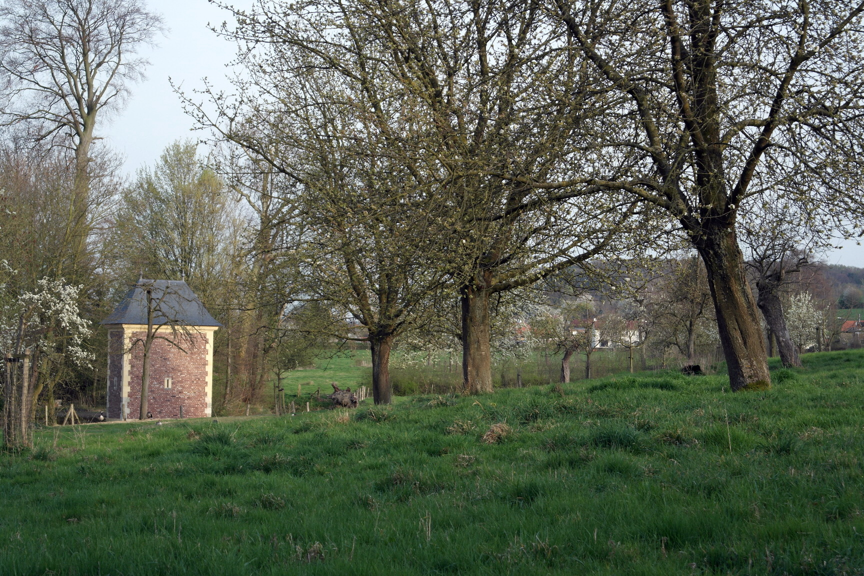 Oud-Valkenburg, Limburg, the Netherlands. View of a small pavillion on the grounds of Genhoes Castle.